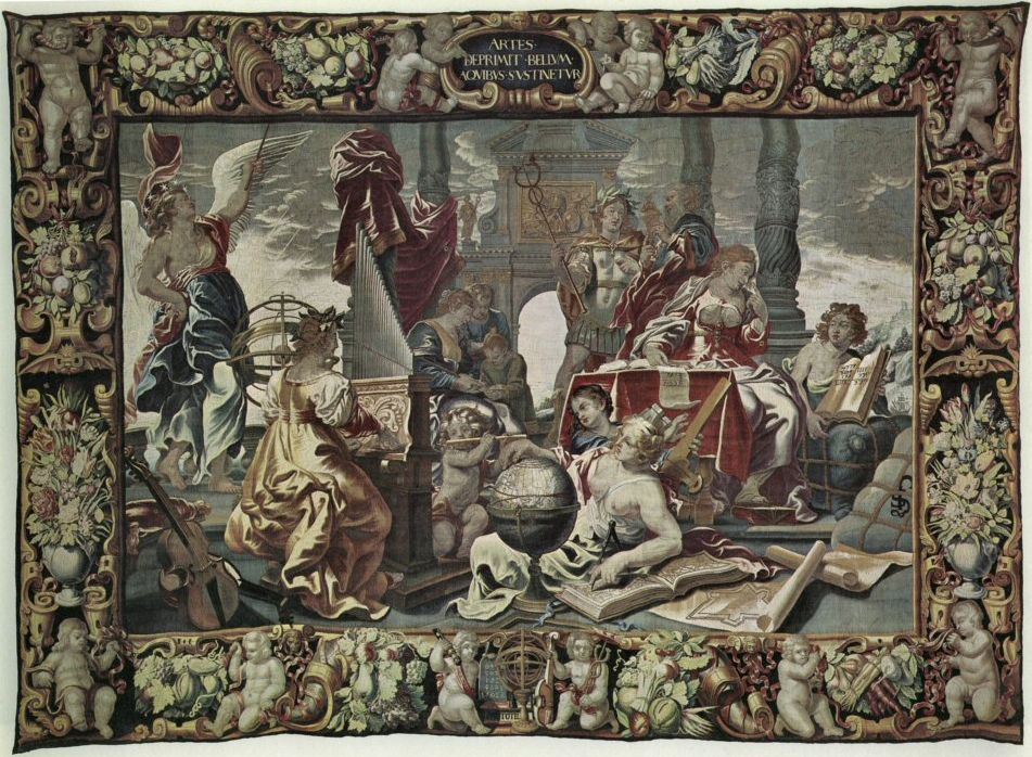 Seven liberal arts. Figures of liberal arts from left to right: Astronomy — Music — Grammar — Geometry — Rhetoric — Dialectics — Arithmetic.